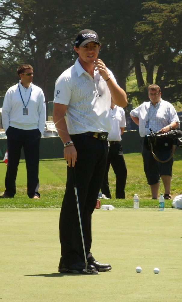 Rory McIlroy practicing putting at the 2012 U.S. Open